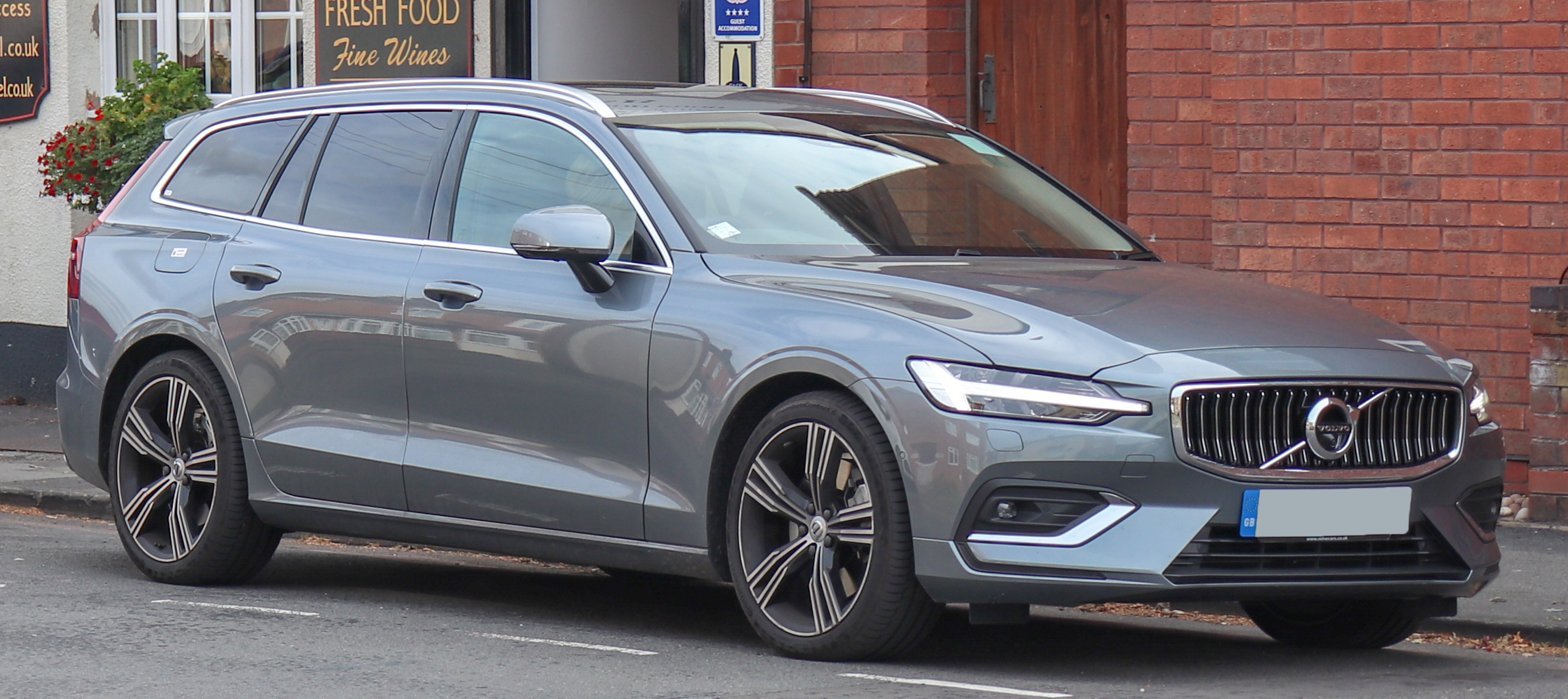 2018 Volvo V60 Inscription PRO D3 Automatic 2.0 (Could've been better quality but the women was just entering it at the time so I had to photograph without looking suspicious) Taken in Warwick